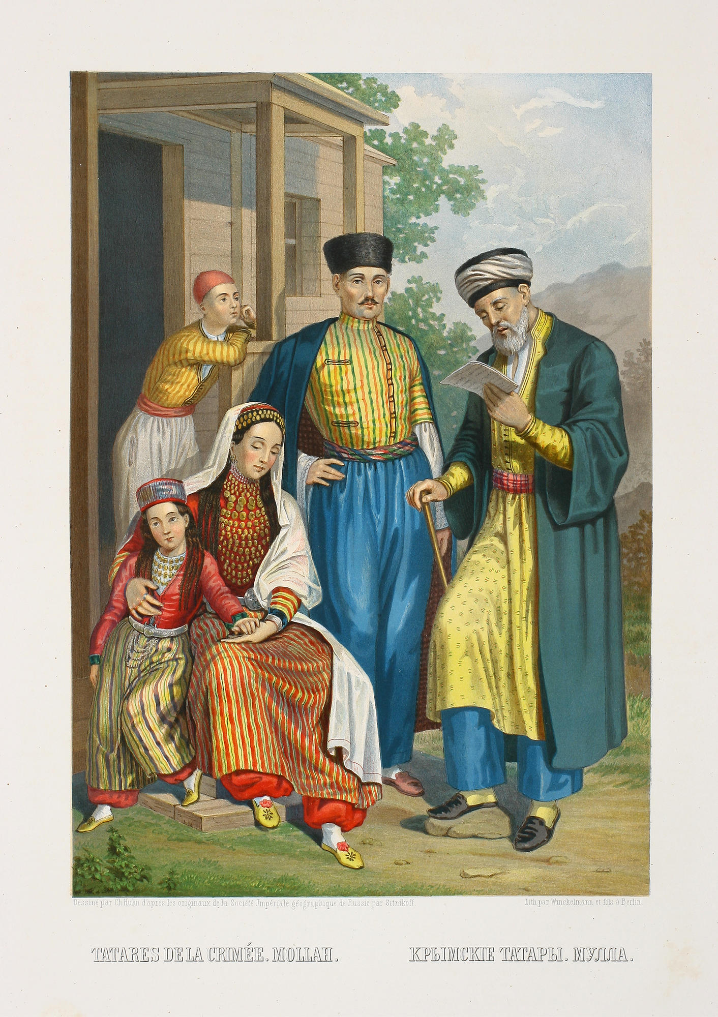 Tataren of Krym